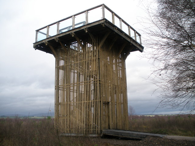 S.N.H. Observatory overlooking Flanders Moss